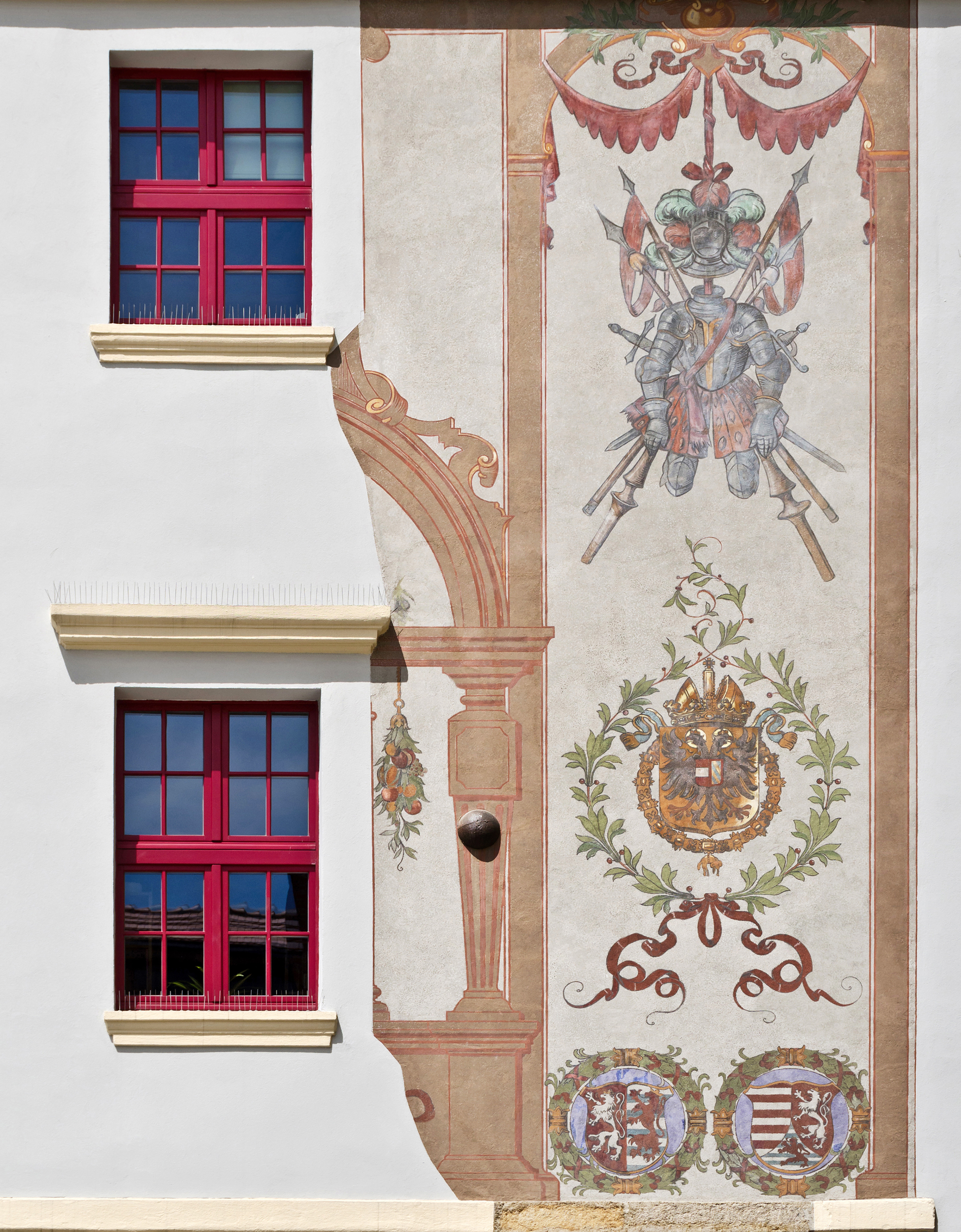 City Scales House in Nysa Ta fotografia przedstawia zabytek wpisany do rejestru zabytków pod numerem ID 611475